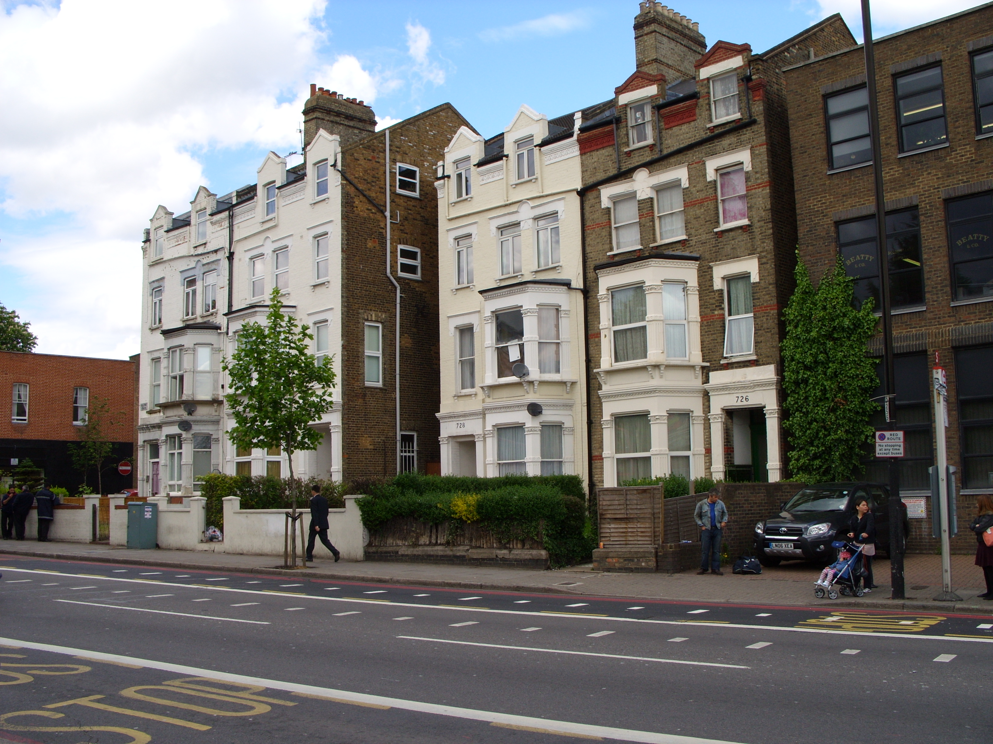 Row of typical houses on Holloway Road (A1), London; roughly at the location of the fictional "Brickfield Terrace" in Diary of a Nobody